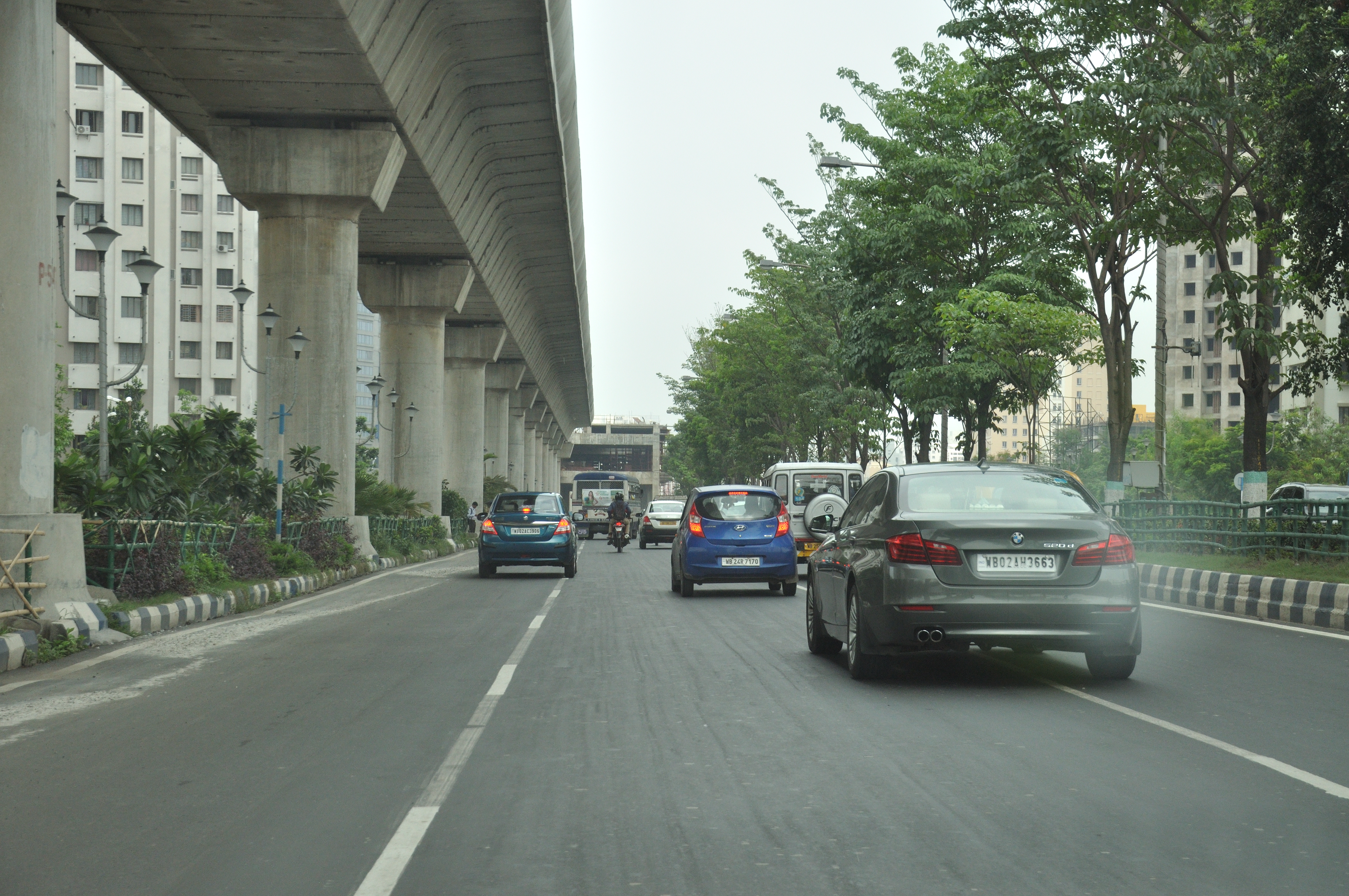 Photographed in greater Kolkata.